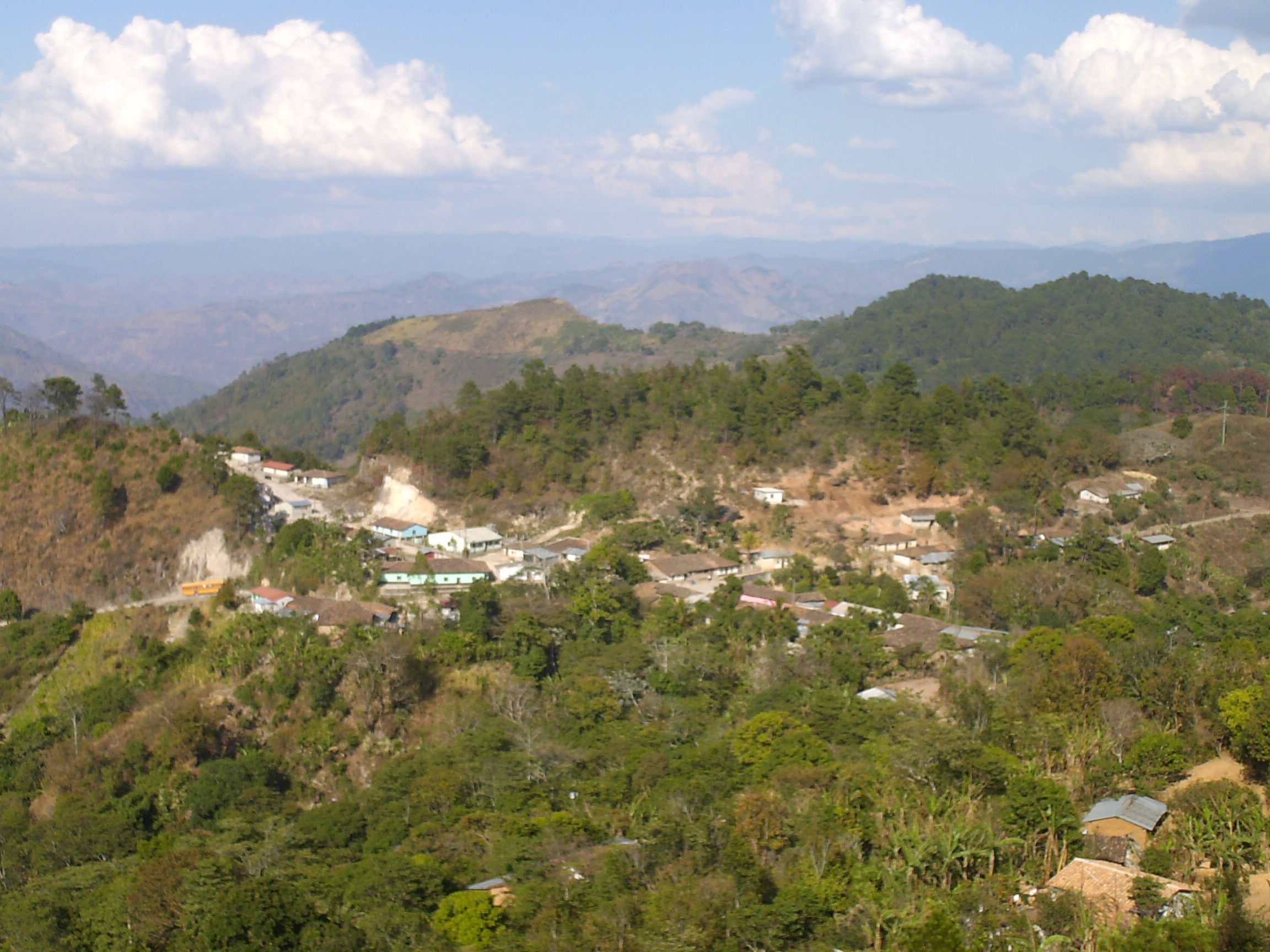 Valladolid, municipality in the Honduran department of Lempira.